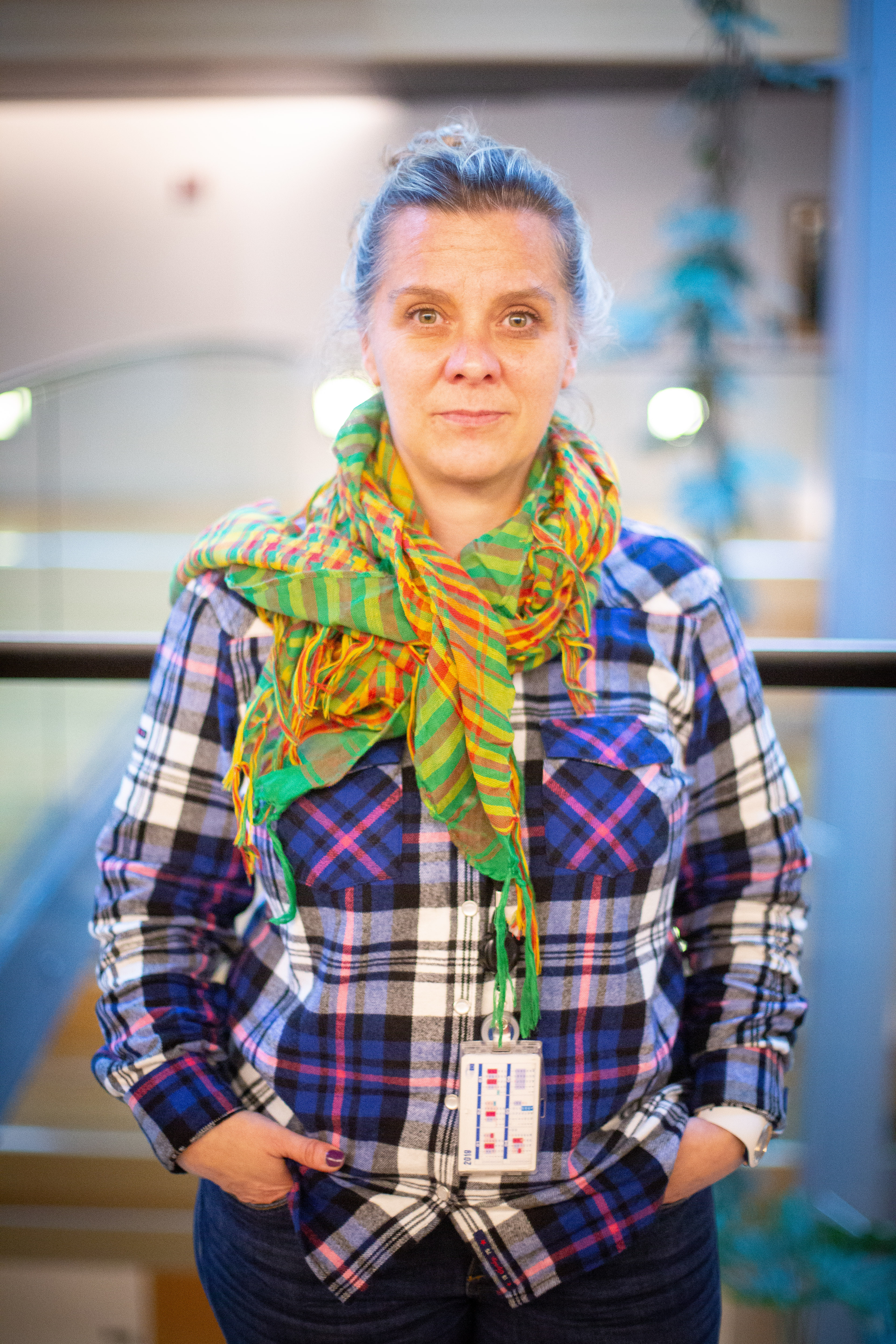 This week in #Eplenary our MEPs showed their solidarity with the Kurdish people #Rise4Rojava